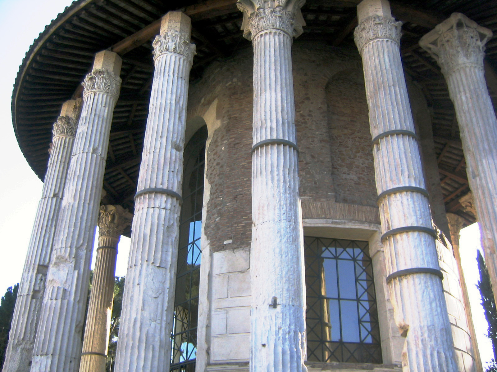 This temple was described as a church, "St Stephen of the Carriages" (S. Stefano delle Carrozze), in AD 1132, but dates from the late second or early first century BC. Rome, Italy.